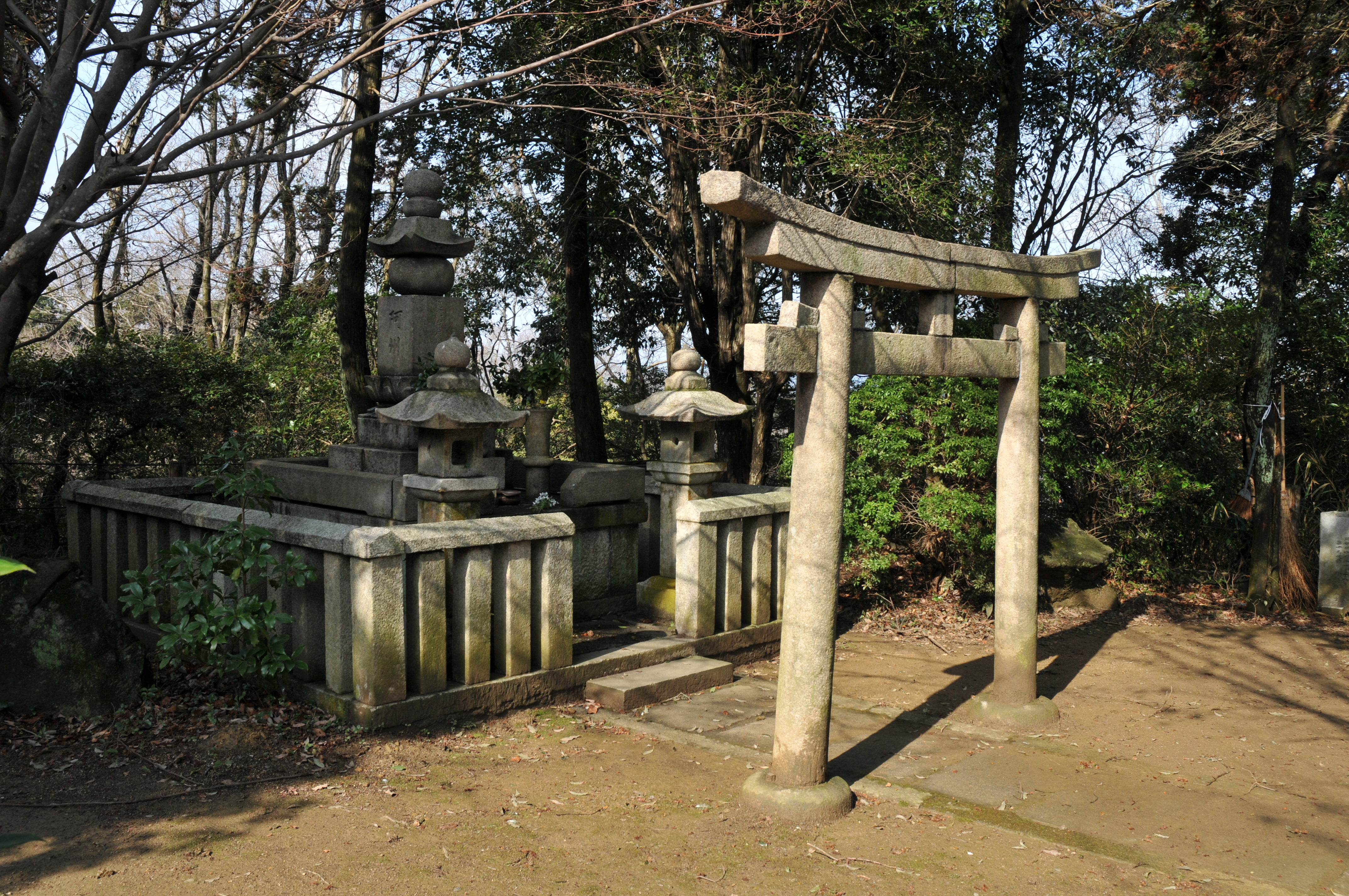 grave of Hachisuka Masakatsu